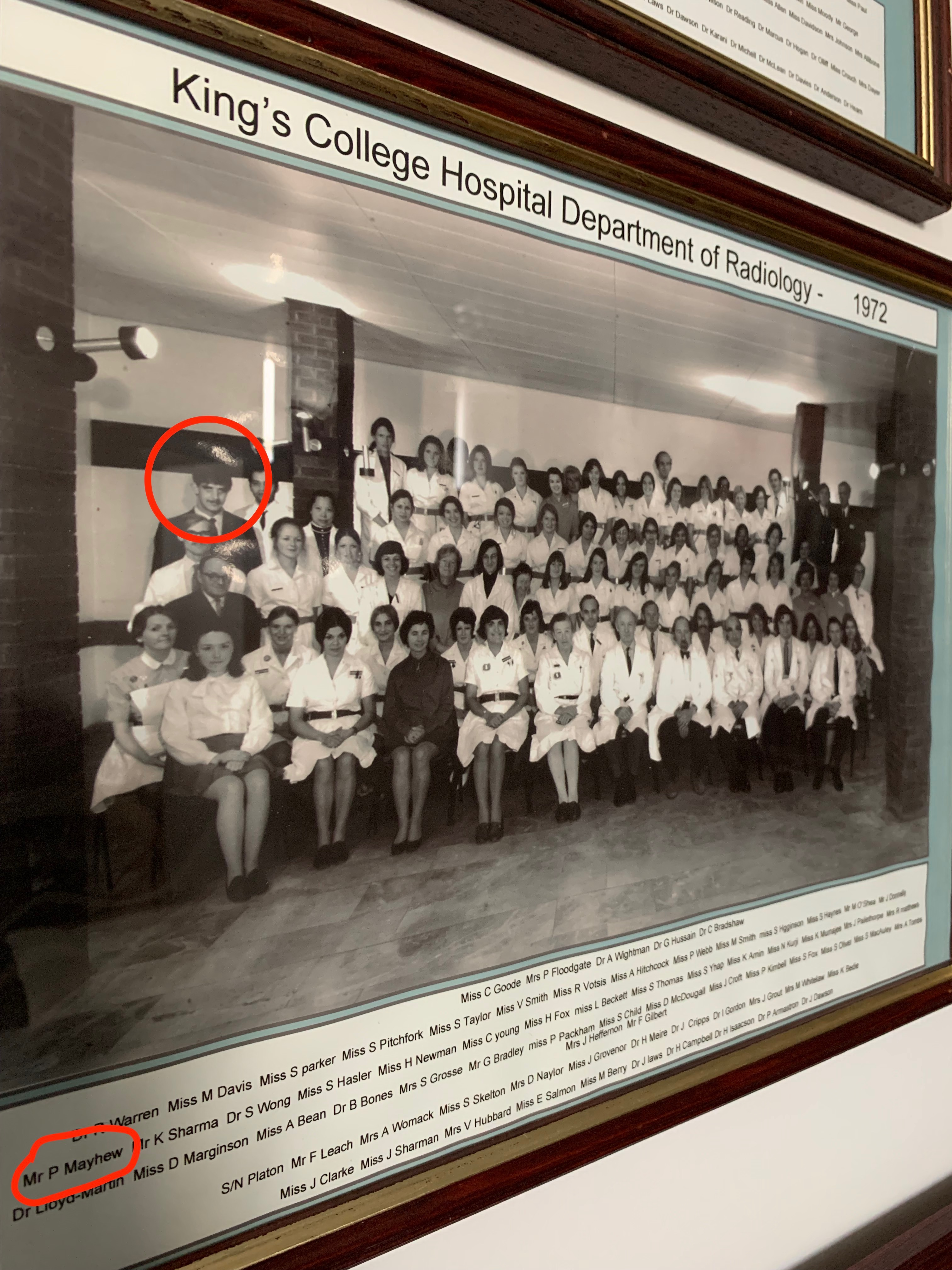 Pater Mayhew, 1972, in departmental photo, Department of Radiology, King's College Hospital, London